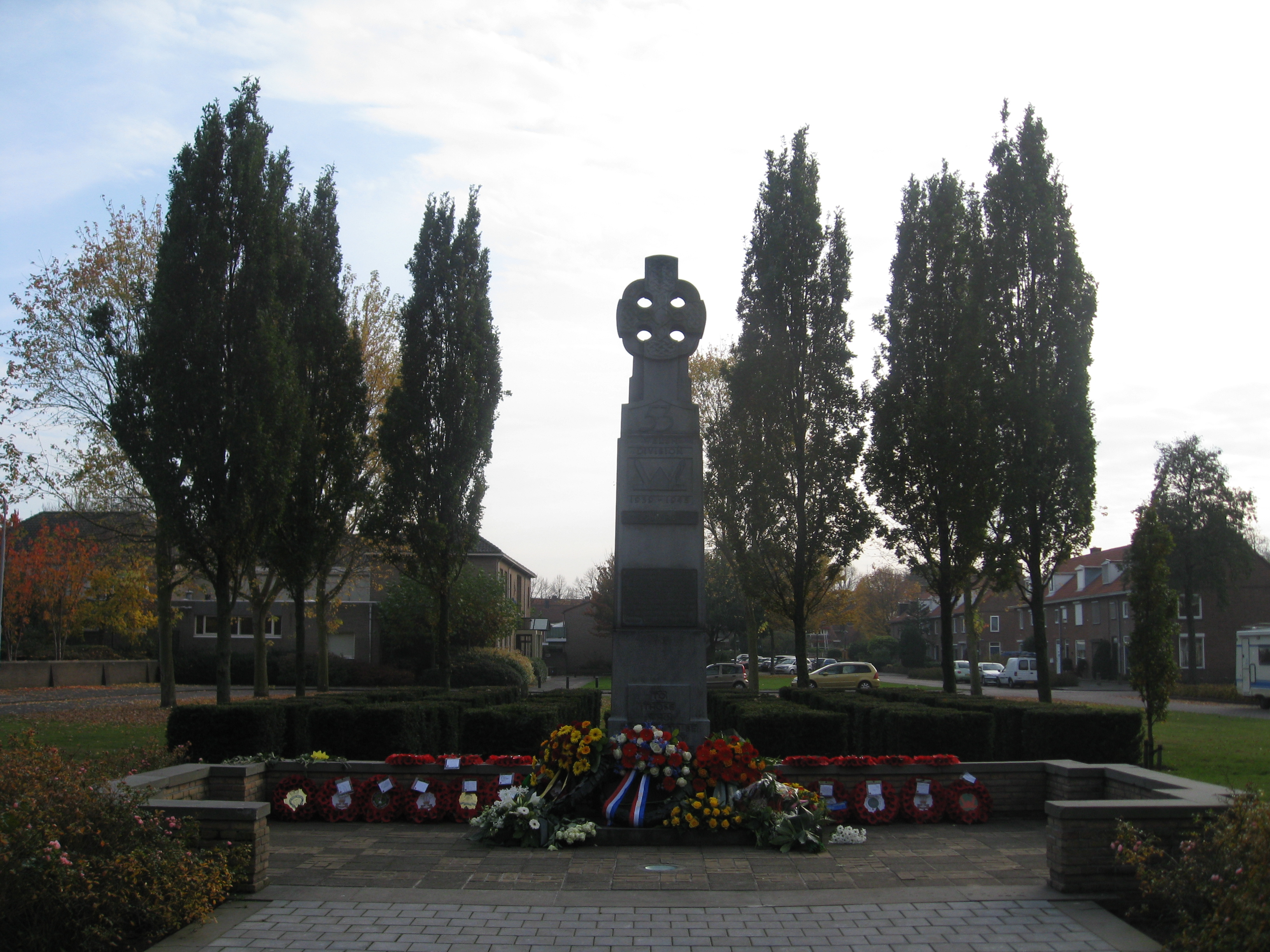 Picture Taken by JHG Hendriks. The 53rd Welsh Division Memorial at Aartshertogenlaan, 's-Hertogenbosch, Noord-Brabant The text on the pillar is: 'TO THOSE WHO DESERVE TO BE ETERNALLY REMEMBERED'. And the text on the plaque is: 'THIS MEMORIAL WAS ERECTED BY MEMBERS OF 53RD (WELSH) DIVISION IN MEMORY OF THEIR COMRADES WHO DIED IN THE FIGHTING IN NORTH WEST EUROPE DURING THE YEARS 1944-1945. IT WAS PLACED HERE TO COMMEMORATE THE FACT THAT THE TOWN OF 'S-HERTOGENBOSCH WAS LIBERATED BY THE DIVISION IN OCTOBER 1944 AFTER BITTER FIGHTING.'